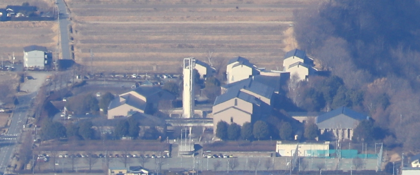 Nagano Prefectural College of Nursing seen from Mount Tokura in Komagane, Nagano Prefecture, Japan. Canon EOS Kiss X9